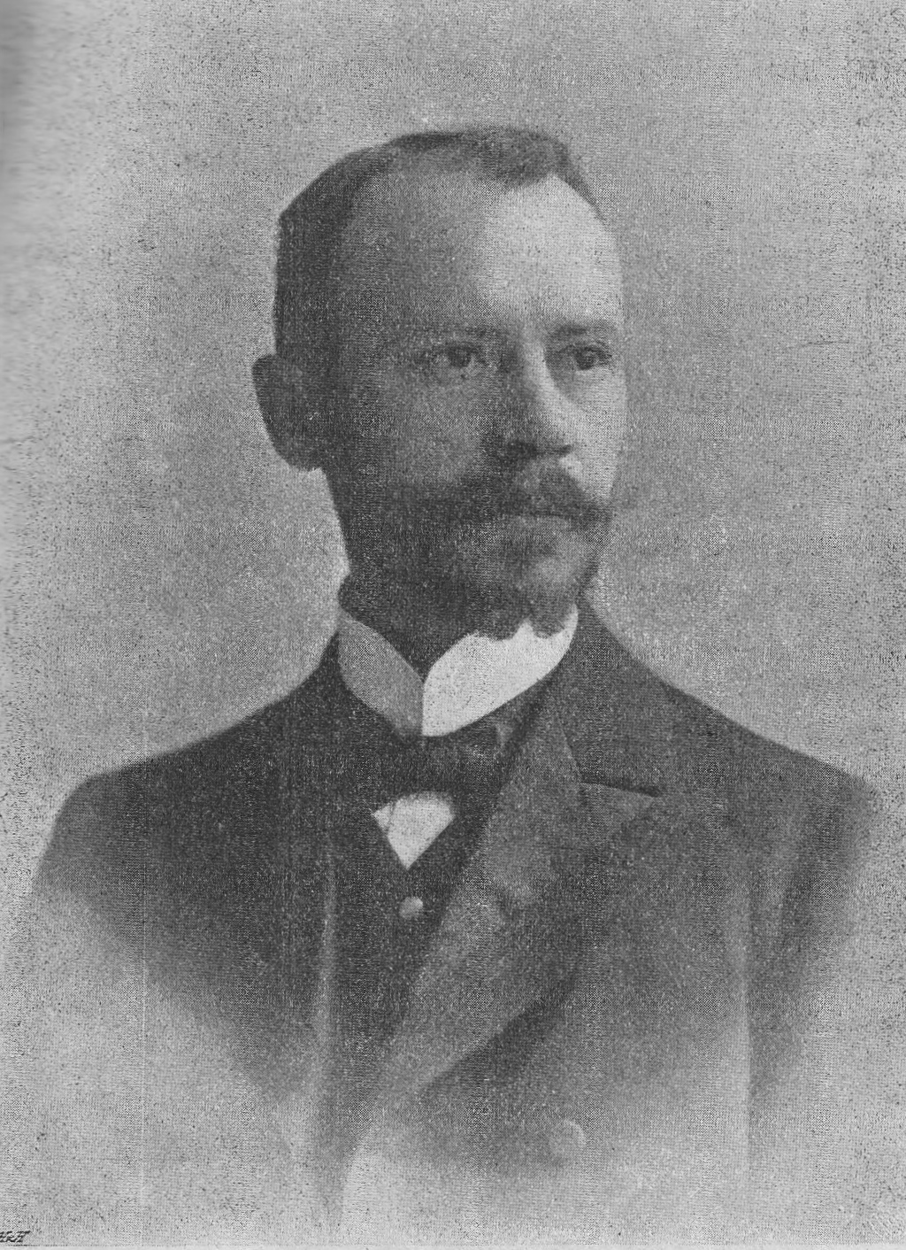 A photograph of Đorđe Velisavljević (1864-1935), a Serbian banker, businessman and benefactor. Srpski (latinica): Fotografija Đorđa Velisavljevića (1864-1935), srpskog bankara, privrednika i dobrotvora.